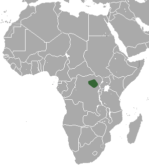 Latona's Shrew (Crocidura latona) range